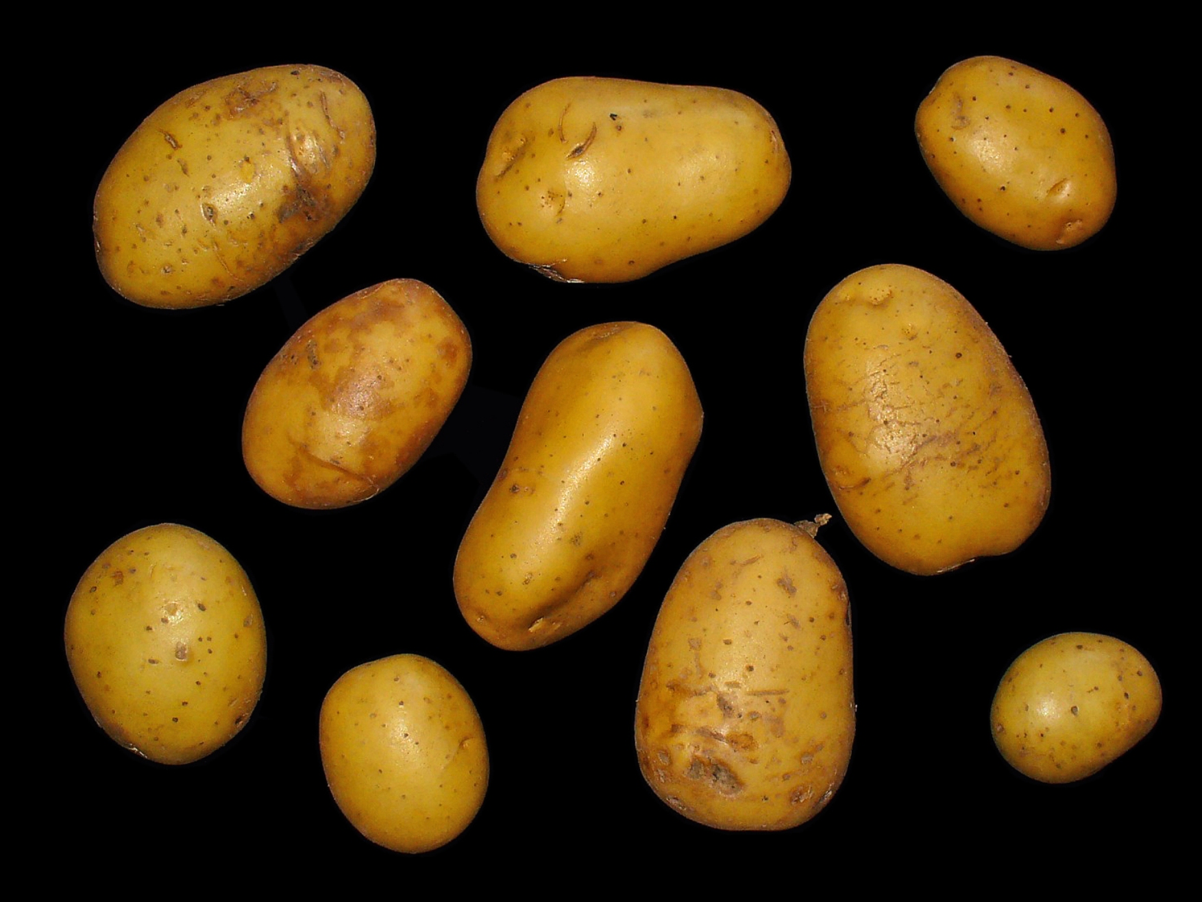 Solanum tuberosum, Solanaceae, Potato, tubers. Karlsruhe, Germany